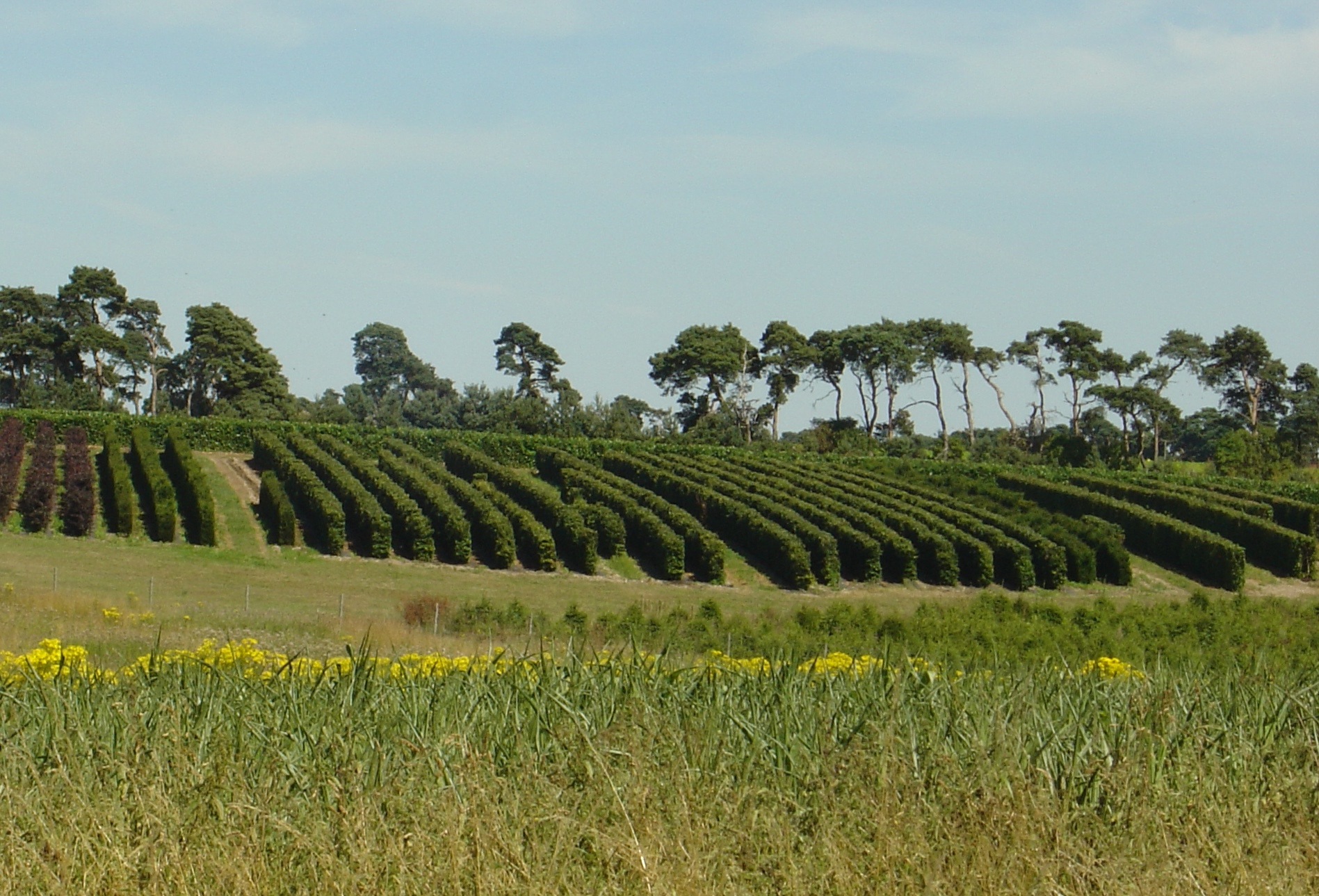 Field grown instant hedge at Elveden Estate in East Anglia, UK